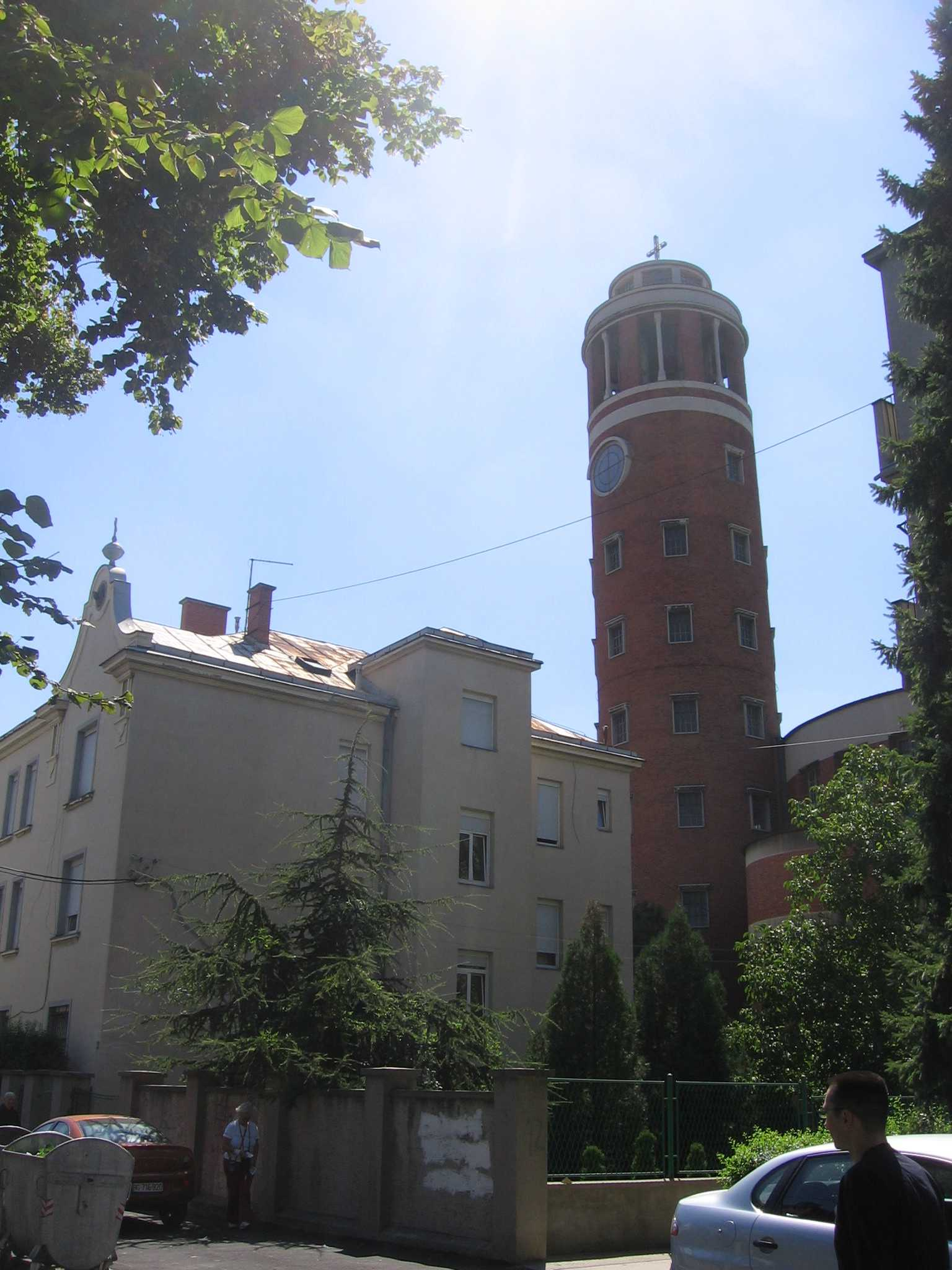 Slovenian architect Jože Plečnik constructed this church as Old-Roman apside. Francescans begann to build this Catholic church on Crveni krst (Red Cross) in Belgrade in year 1929. Tower is erected in 1960. It is not finished yet.